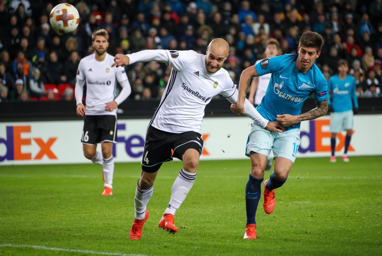 03.11.2017. Норвегия, Тронхейм, стадион «Леркендал». Лига Европы УЕФА 2017/18, 4 тур, «Русенборг» — «Зенит».